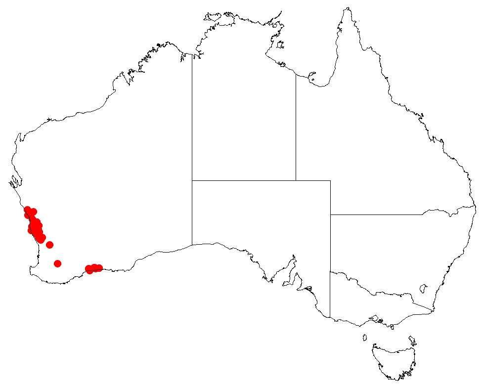 Hakea smilacifolia Occurrence data downloaded from Australasian Virtual Herbarium on 22 November 2018 using